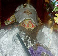 Summary The relics of St. John of Shanghai and San Francisco.